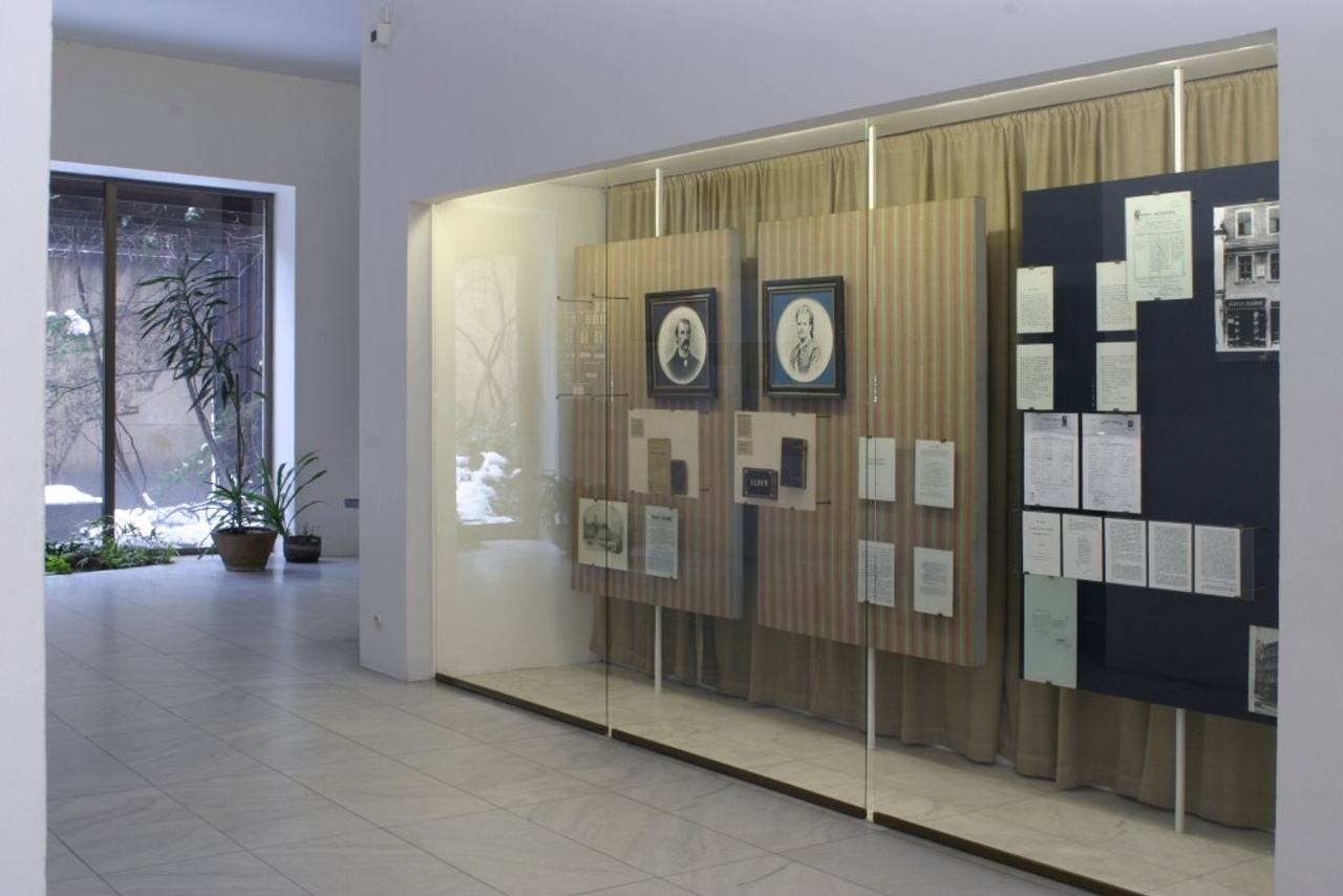 Silesian museum - PB 4